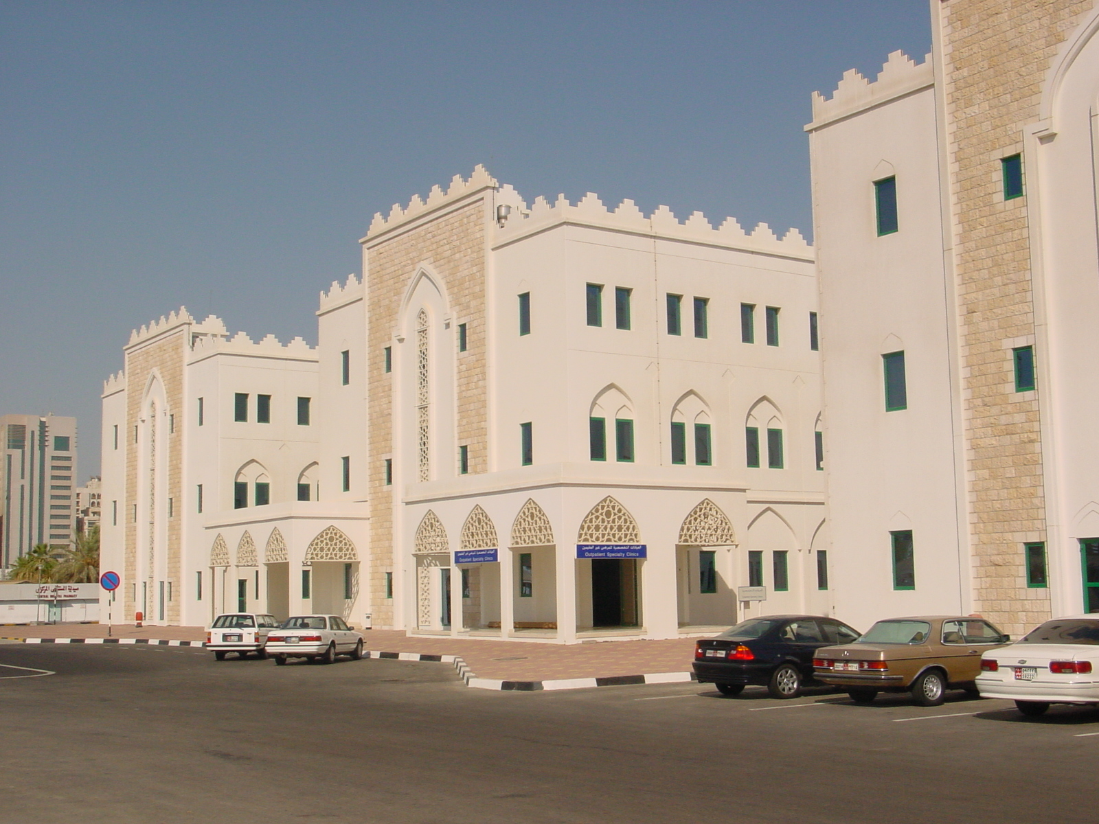 Outpatient Department of Shaikh Khalifa Medical Center